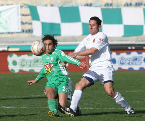 Levnaic in action - Valletta vs Floriana